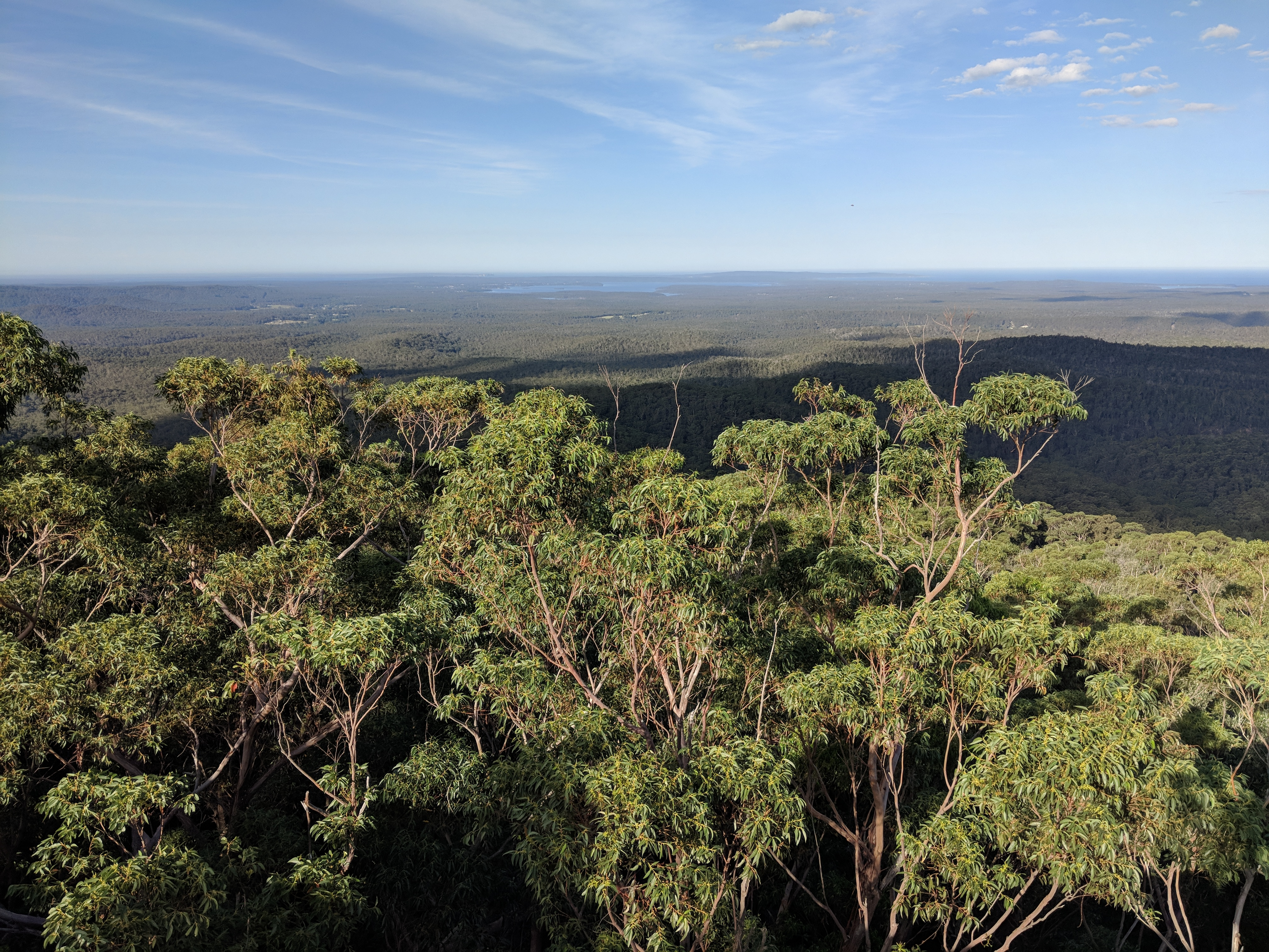 Sussex Inlet from Jerrawangala lookout in Jerrawangala National Park